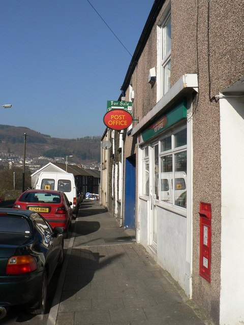 Trealaw: post office and postbox № CF40 141 This office will close permanently on 27 February 2008.